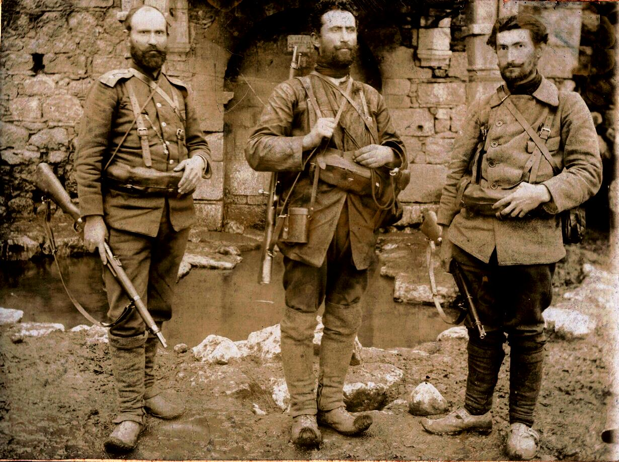 Ivan Popov, Vasil Chekalarov and Hristo Silyanov